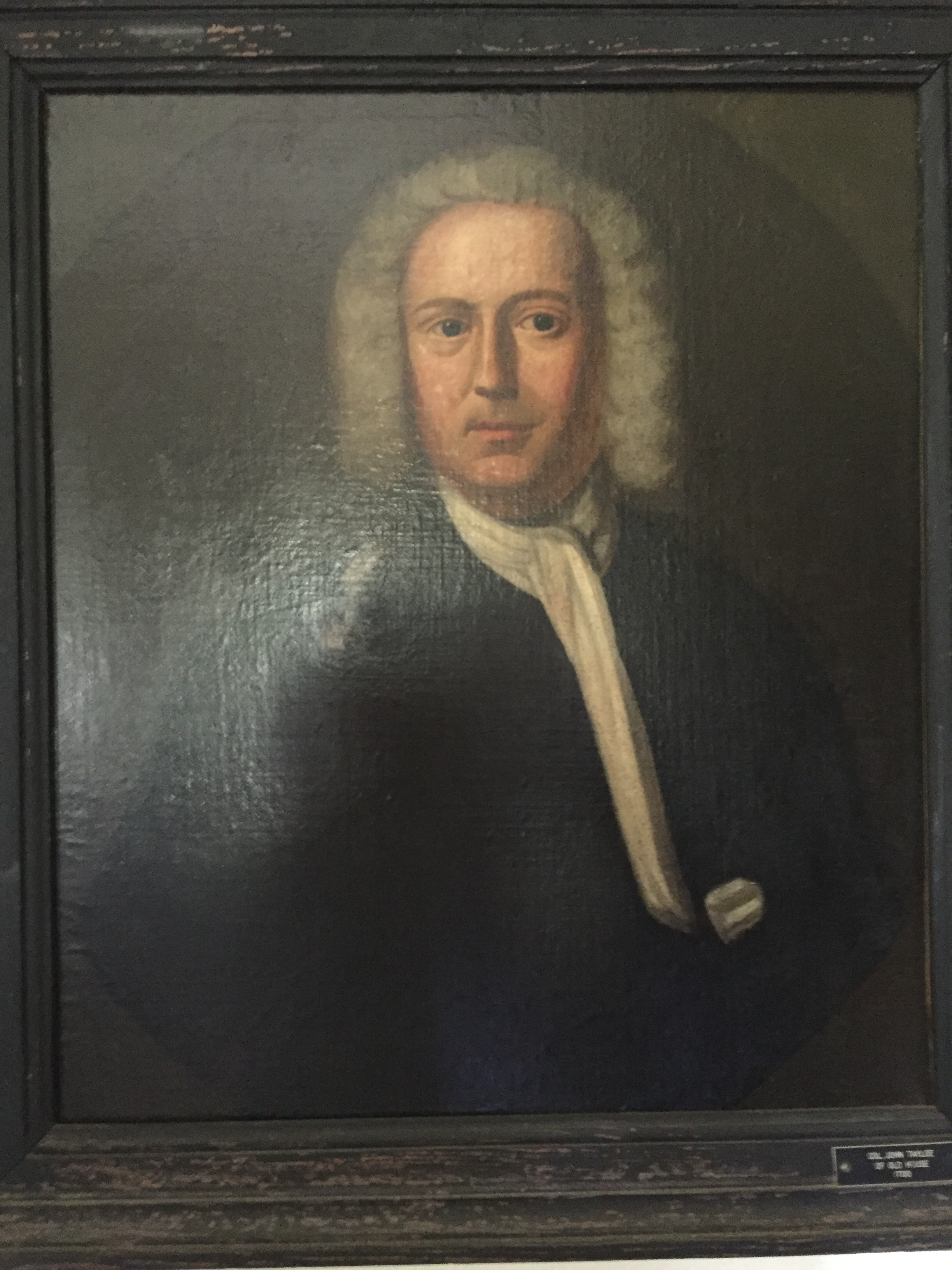 John Tayloe I by Unknown Artist